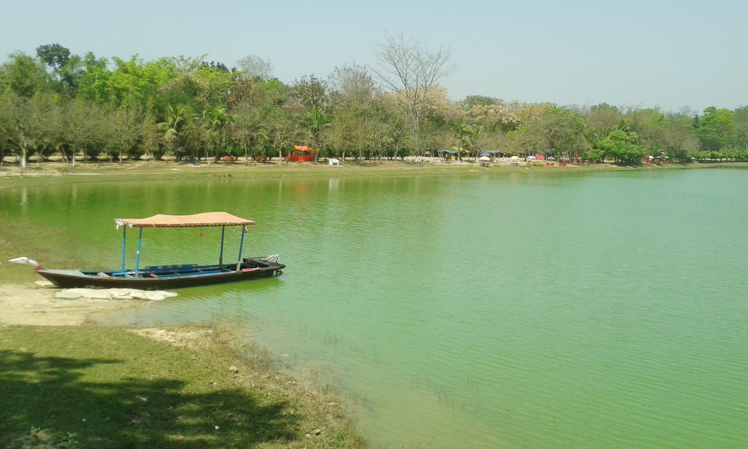 Ramsagor, the largest man made lake in Bangladesh.